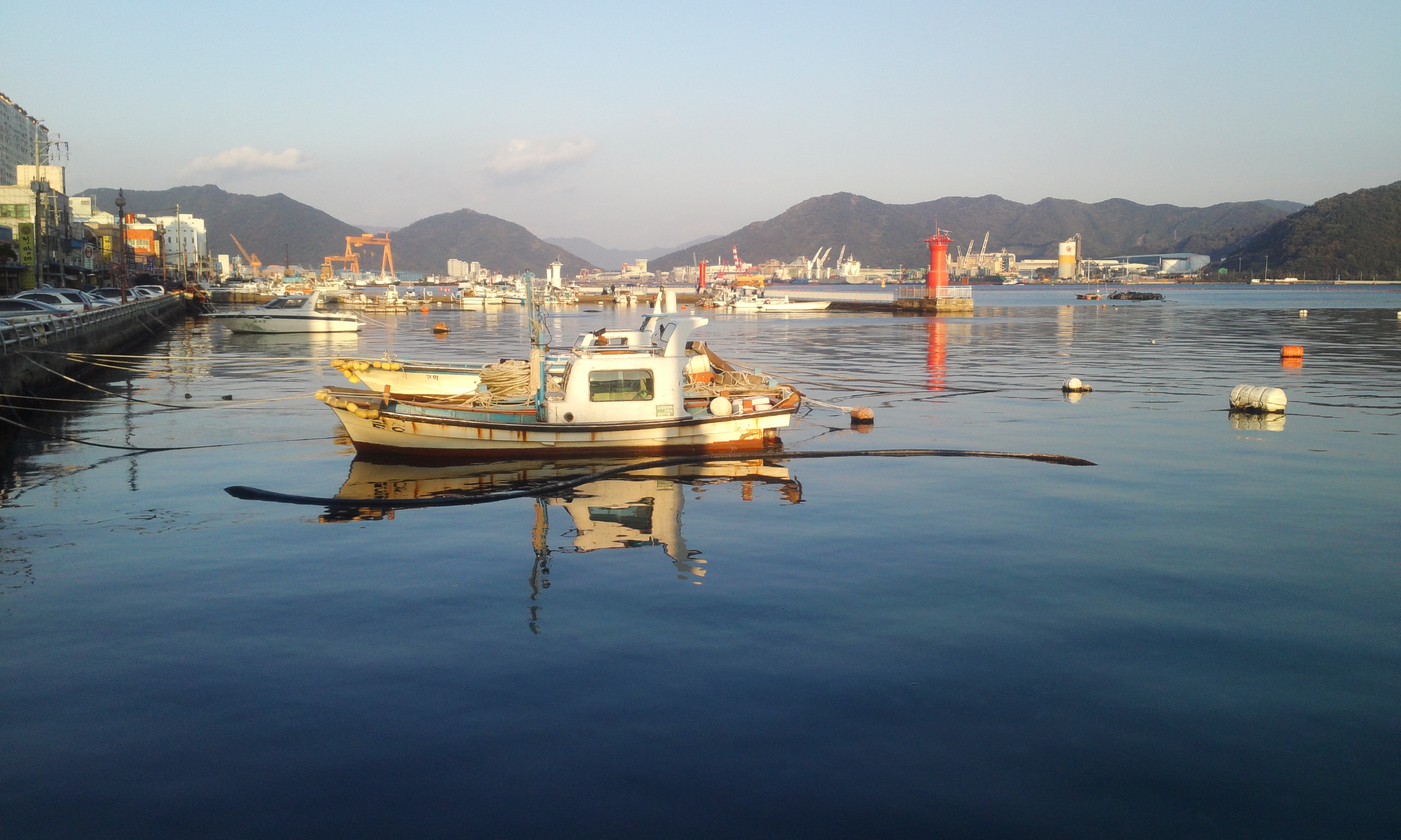 Masan Bay taken from Sinpo-dong, Masanhappo-gu, Changwon on November 2nd, 2014